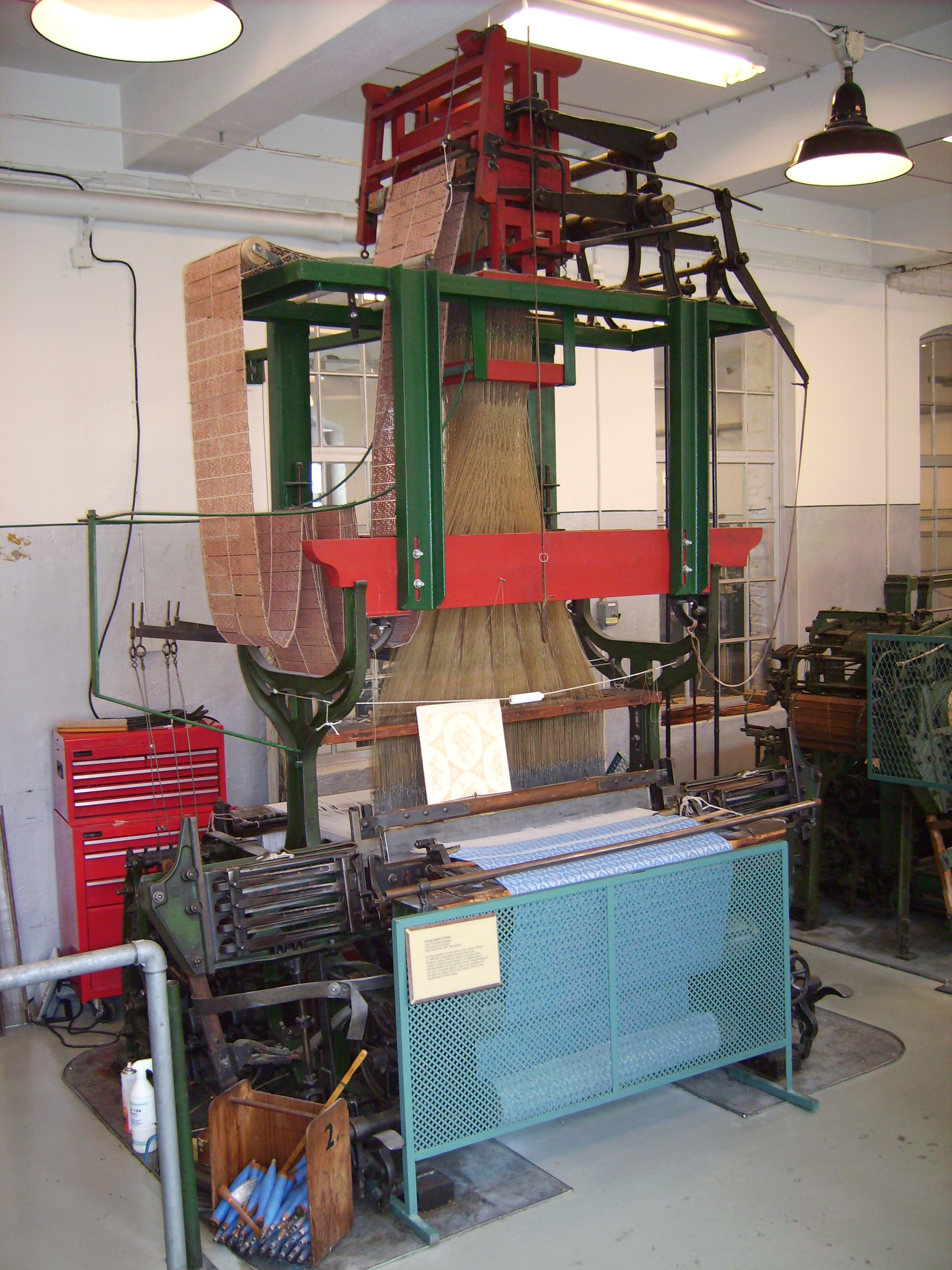 Photo by Harri Blomberg.